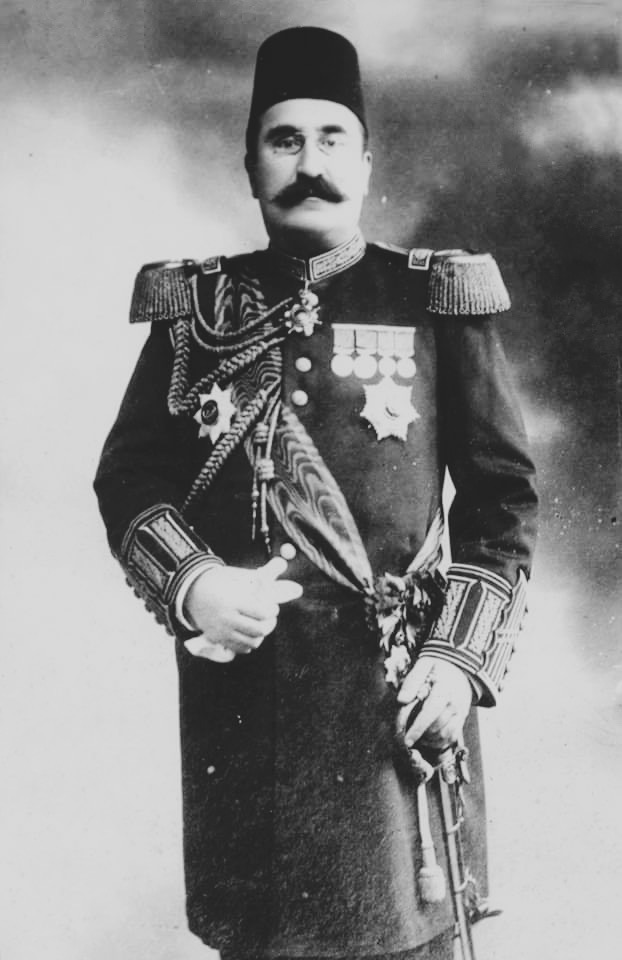 Depicted person: Prênk Bibë Doda – Albanian diplomat and prince